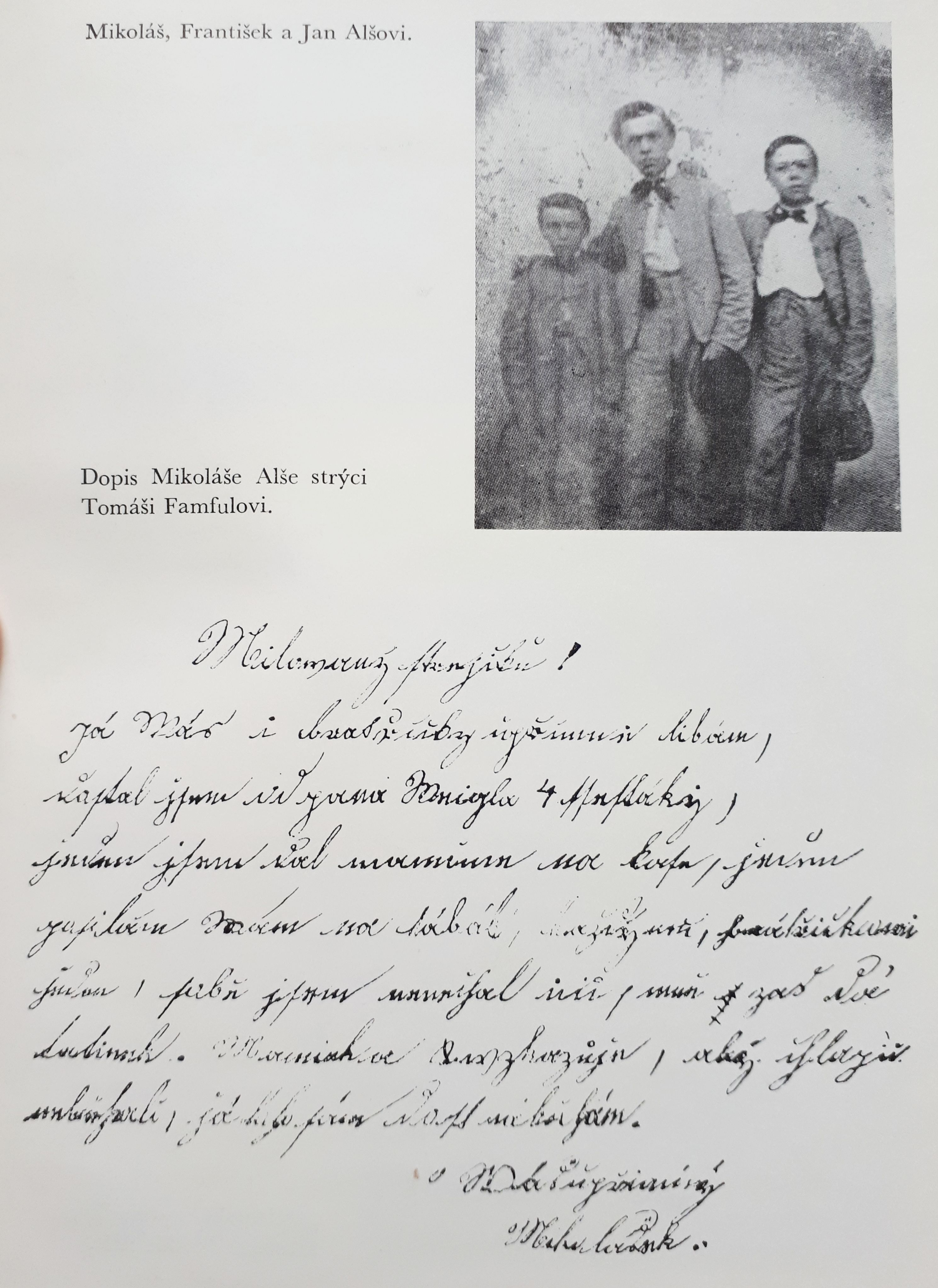 Brothers Mikoláš, František and Jan Aleš & a letter from Mikoláš Aleš to his uncle Tomáš Famfule